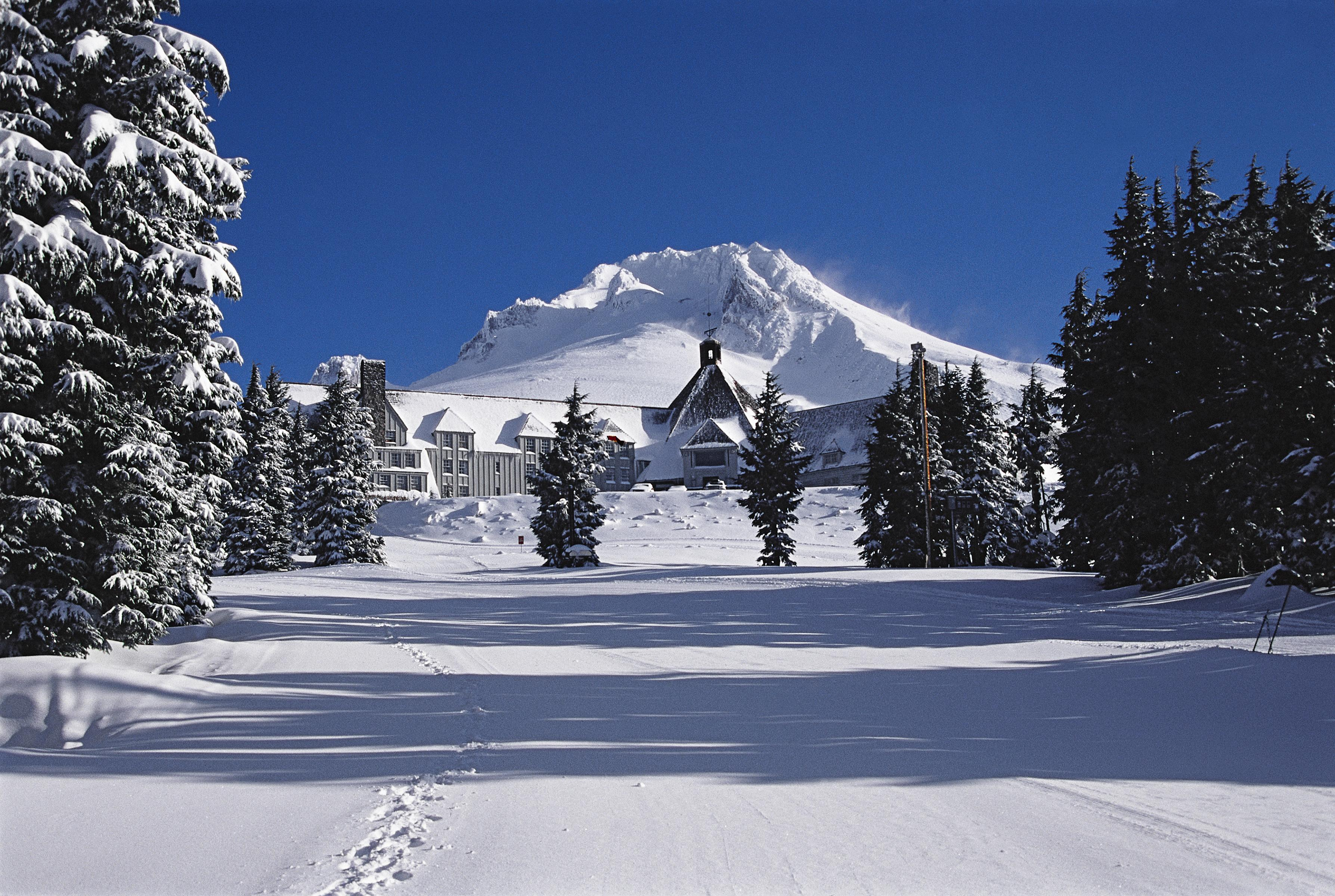 Photo Credit